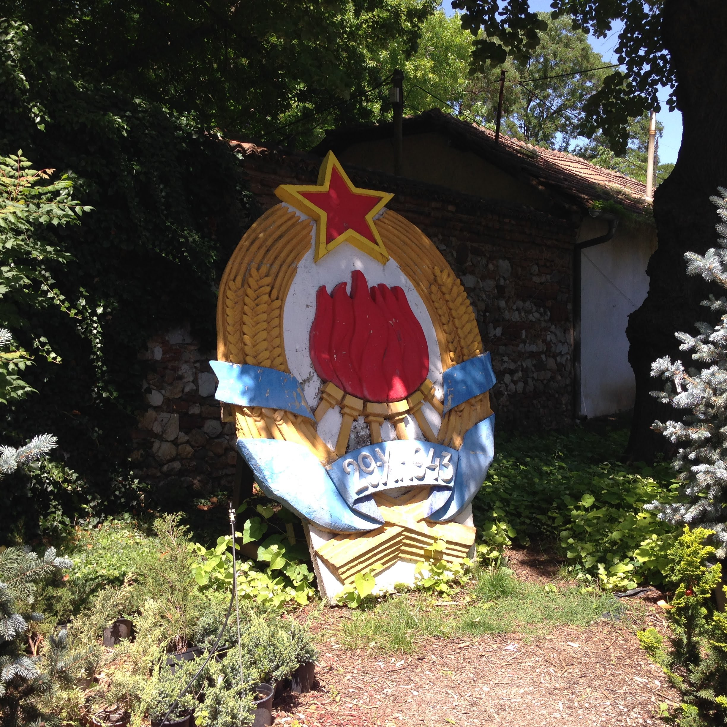 City garden Niš. Serbia